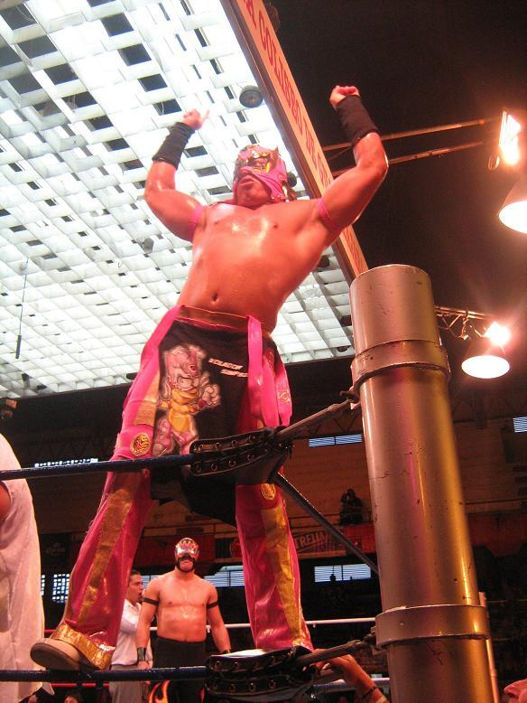 Volador Jr. at Arena Coliseo Guadalajara 2007